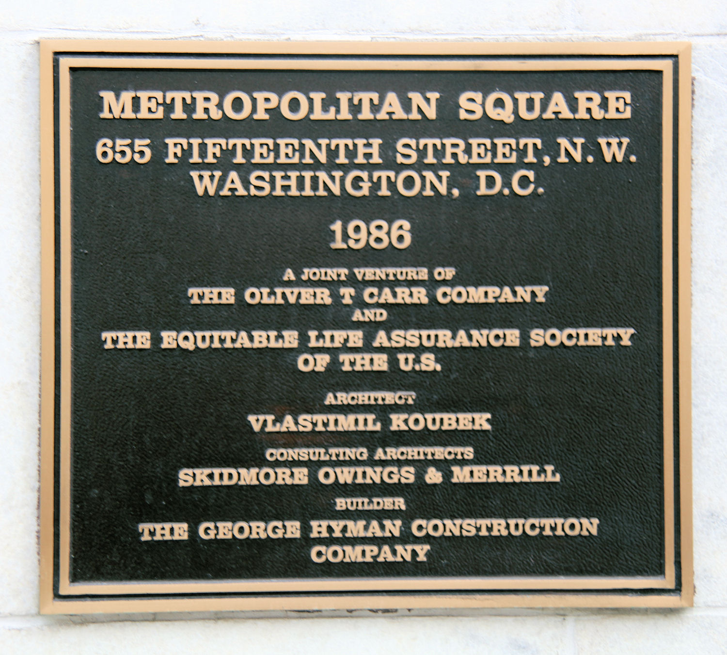 Plaque commemorating the 1986 completion of Metropolitan Square in Washington, D.C., in the United States. This plaque is located near the west entrance of the building. Metropolitan Square is a 12-story hotel and office building complex that occupies the entire block between F and G Streets NW and 14th and 15th Streets NW (due east across the street from the United States Treasury Building). The complex was proposed in November 1977 by developer Oliver T. Carr. After several years of legal battles, Carr agreed to retain the Beaux Arts western facades of the Keith-Albee Building and the Metropolitan National Bank Building. Carr retained architect Vlastimil Koubek to design the new building behind the facade, and hired the New York City firm of Skidmore, Owings and Merrill as consulting architects. Construction on the new building began in 1980. After the demolition of Rhodes Tavern in 1984, the old facade was extended south to the corner of 15th and F Streets NW.